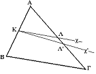 Triangle